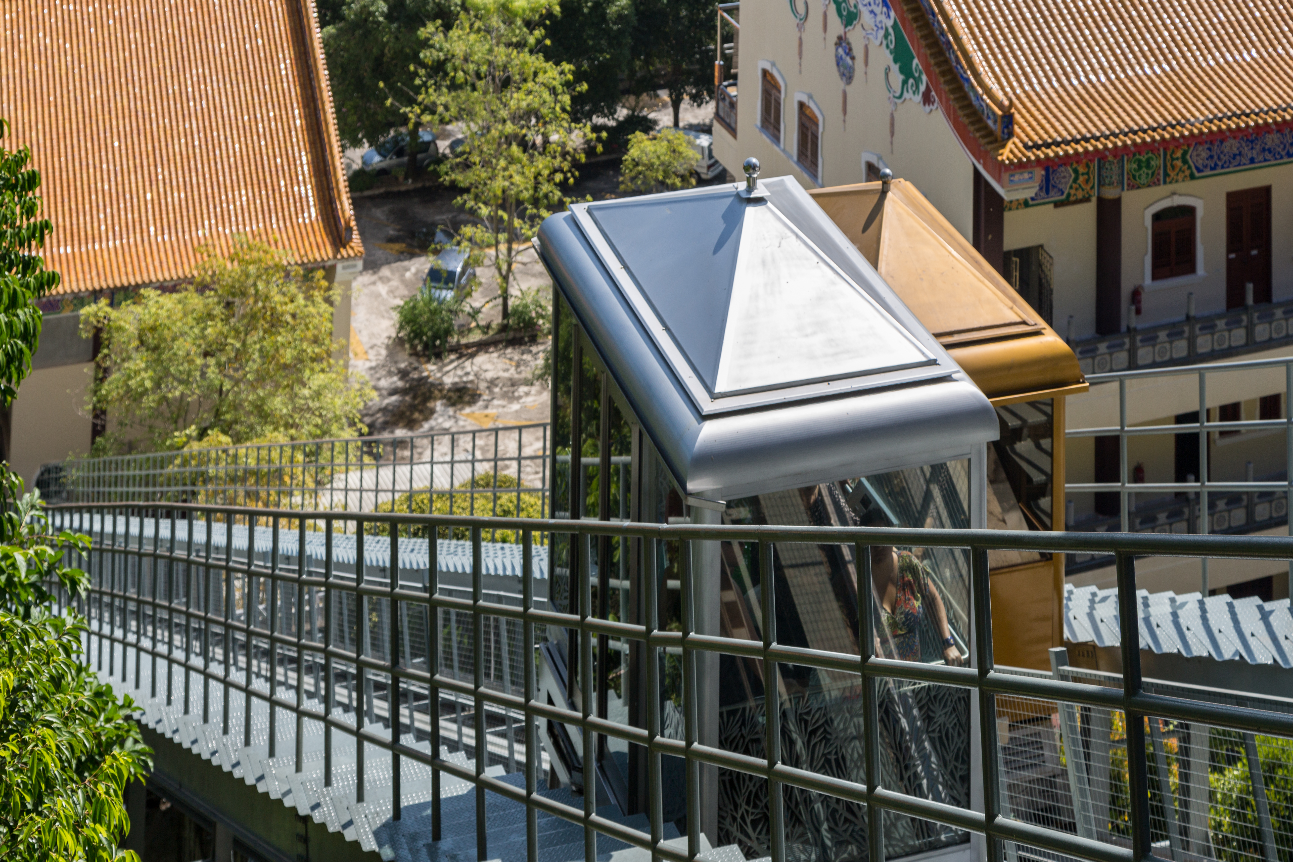 Penang, Malaysia: Inclined Elevator in Kek Lok Si Temple